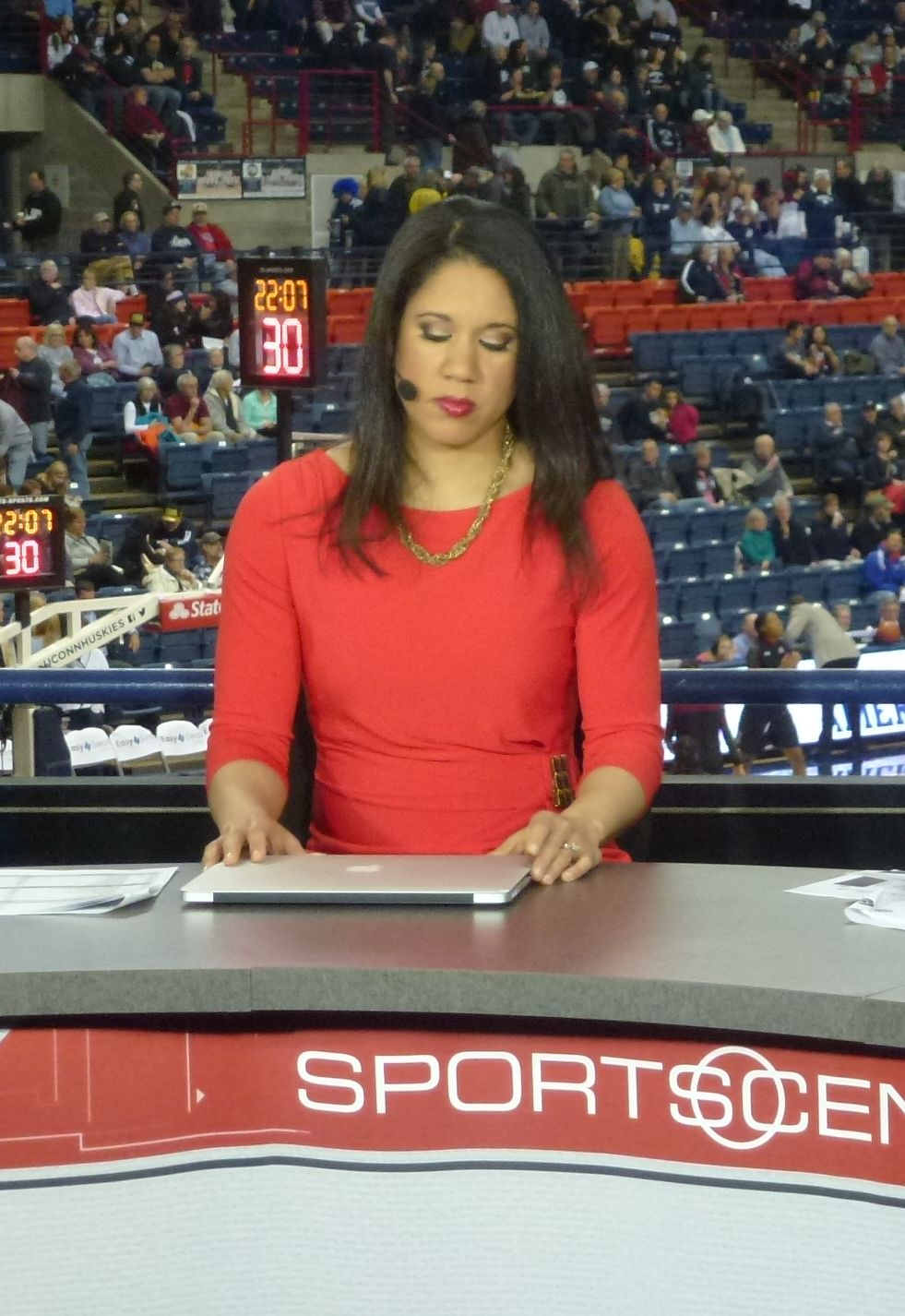 Kara Lawson, commentator at UConn-South Carolina game